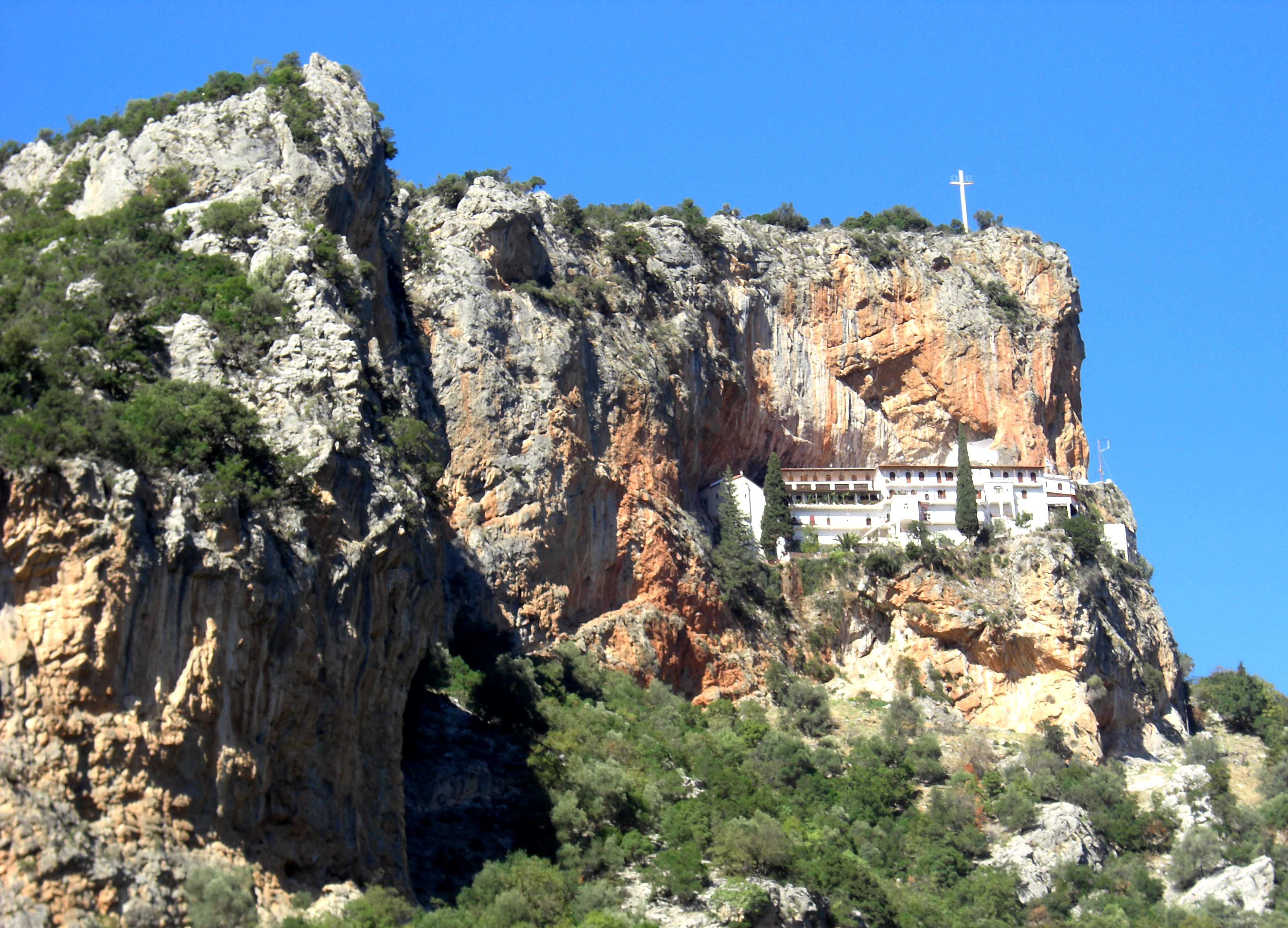 The monastery Panagia Elonas near Leonidio in Greece